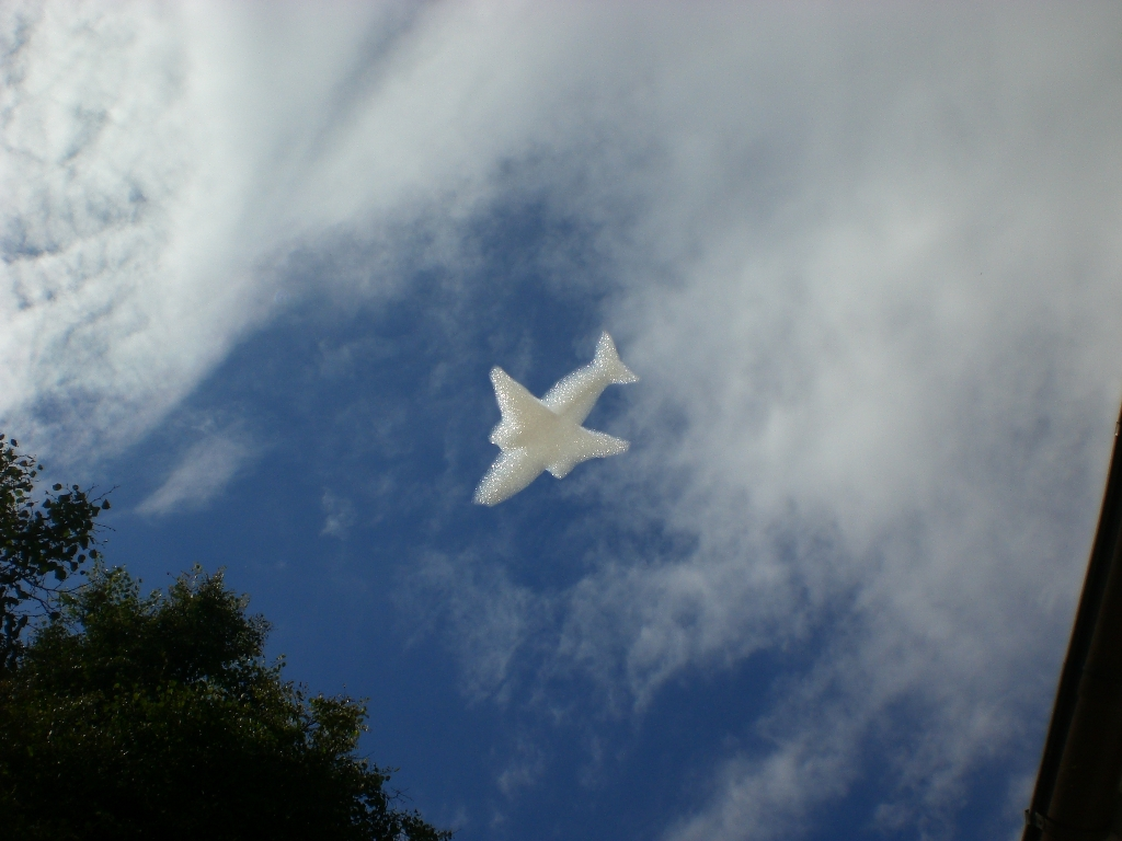 Flogos airplane, flying foam shapes